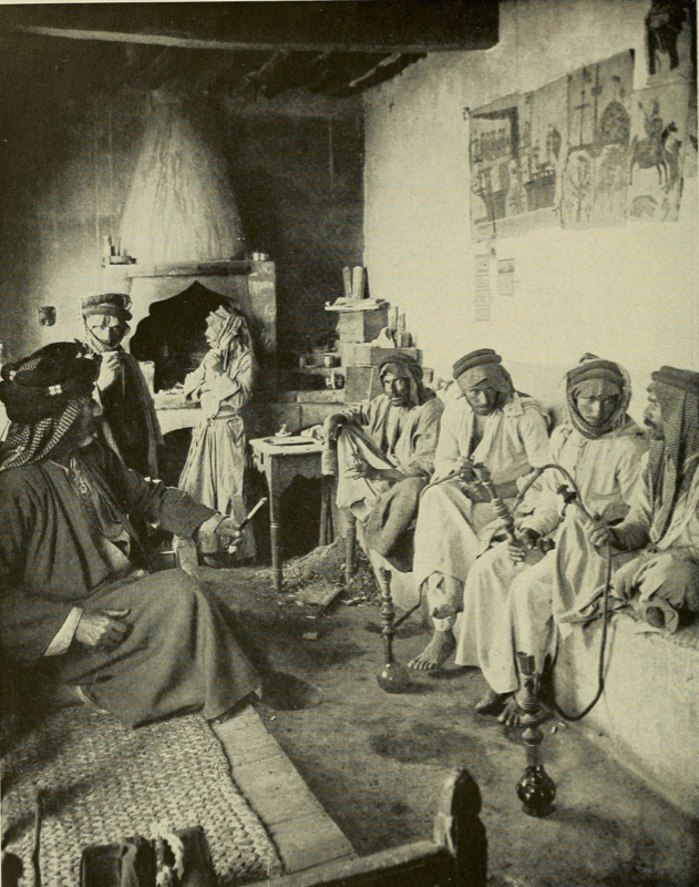 Arab Leisure in a coffee-house of Mosul, Iraq